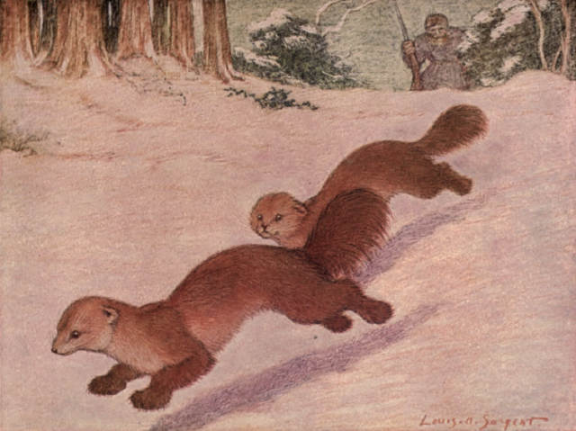 A sable hunt, as illustrated by Louis Sargent